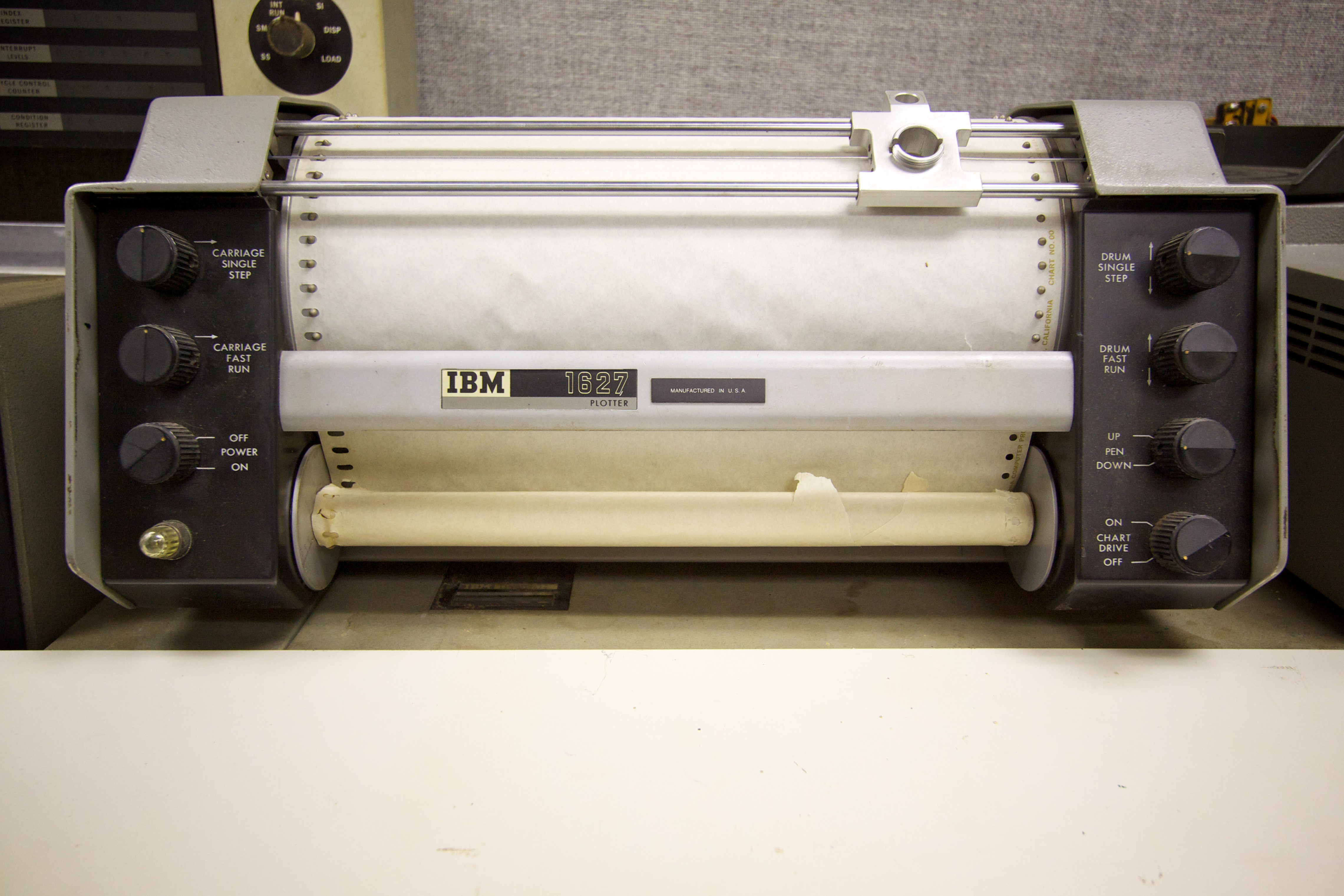 IBM 1627 drum plotter at InfoAge Vintage Computer Museum. Pen assembly is missing.